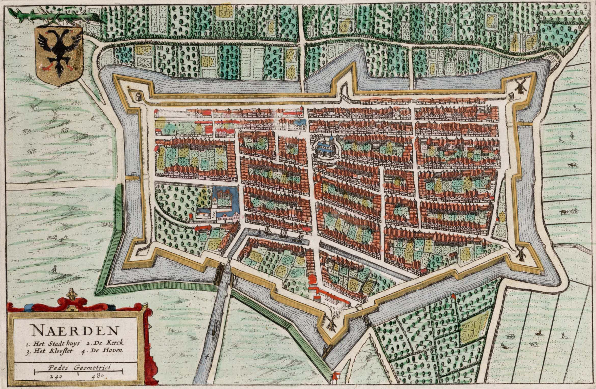 The Dutch town of Naarden.